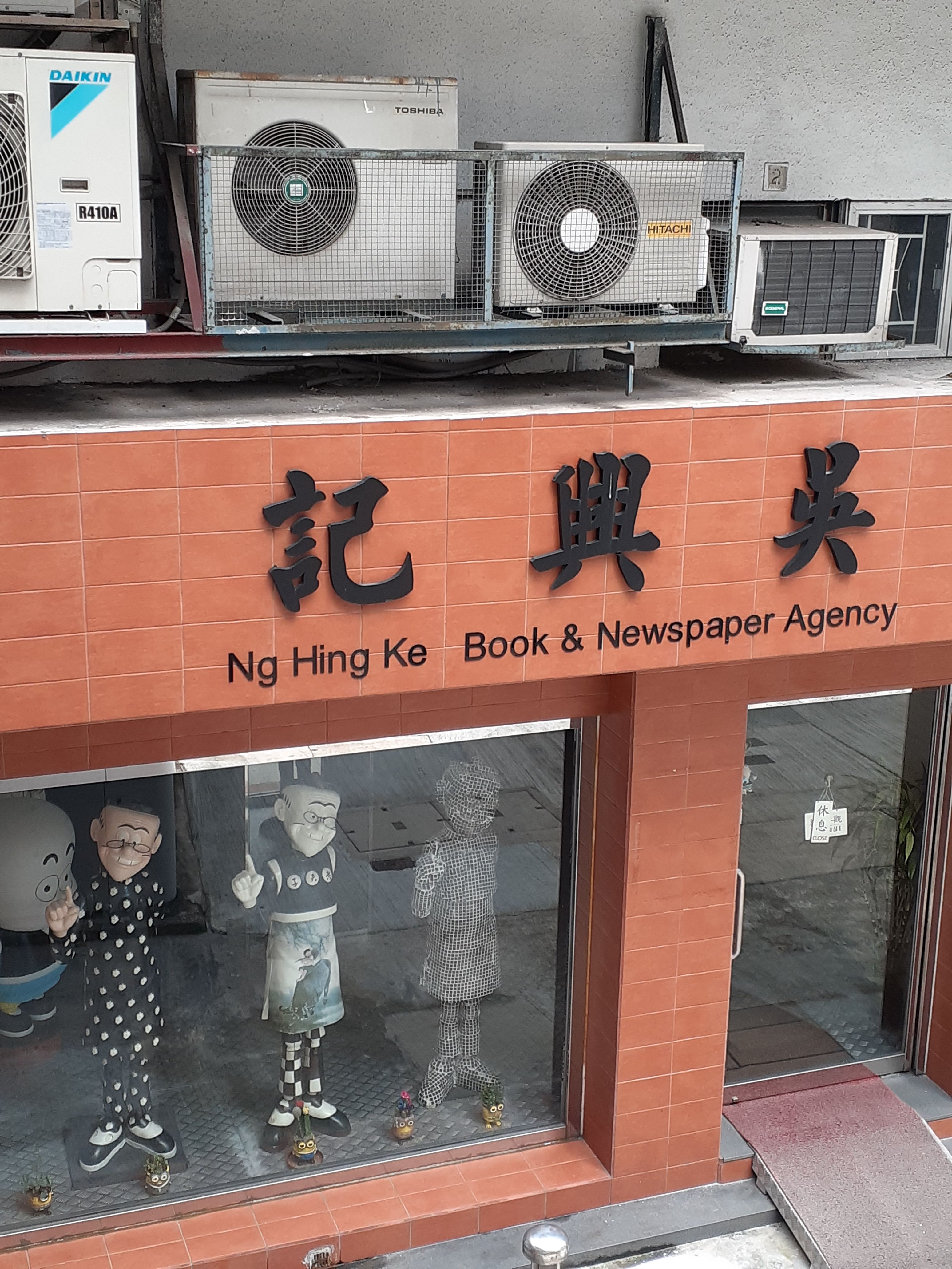 HK SW 上環 Sheung Wan 樂古道 Lok Ku Road shop Ng Hing Kee Book & Newspaper Agency Master Q